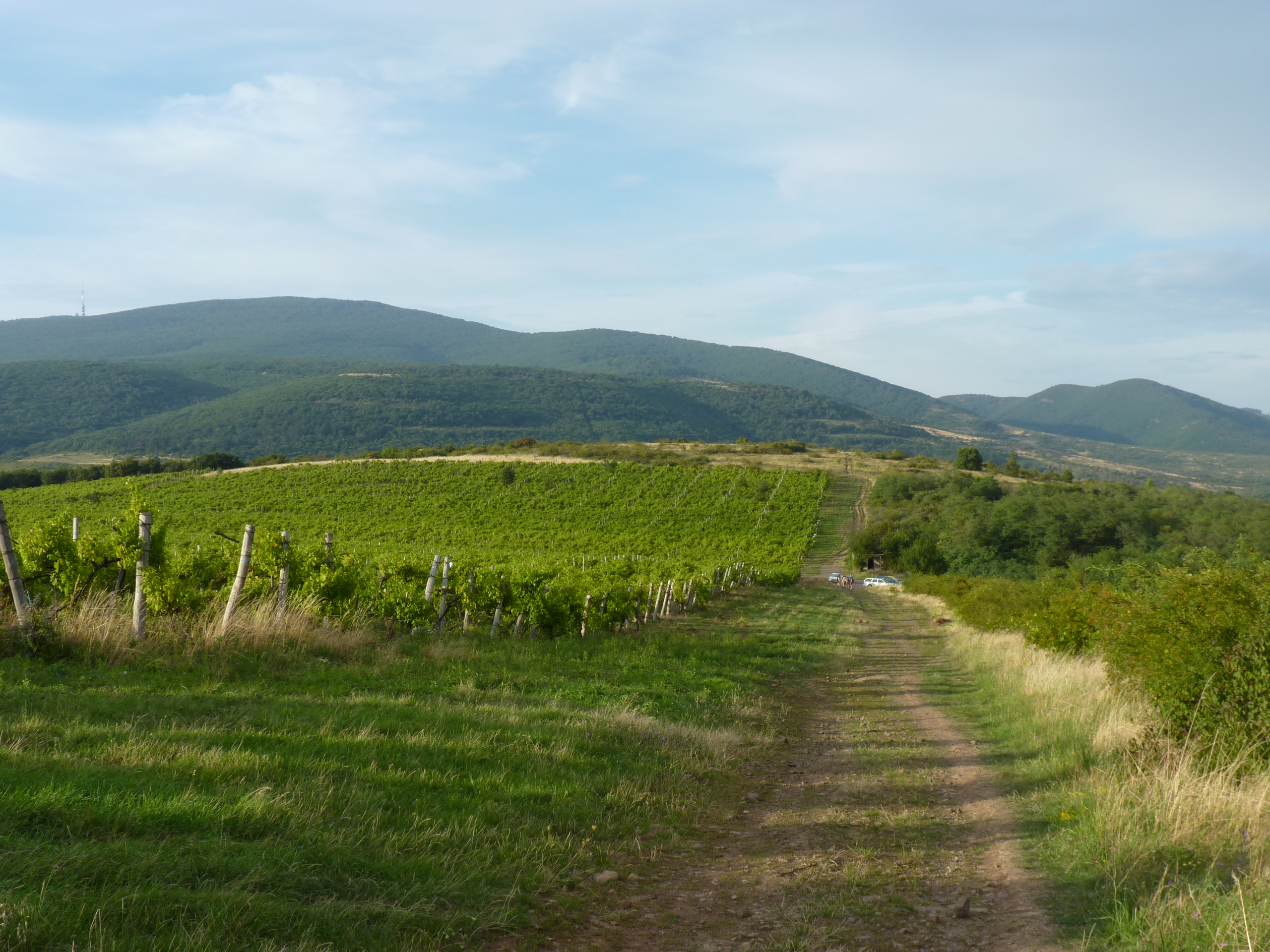 Vineyards above Abasár with Mátra in the background